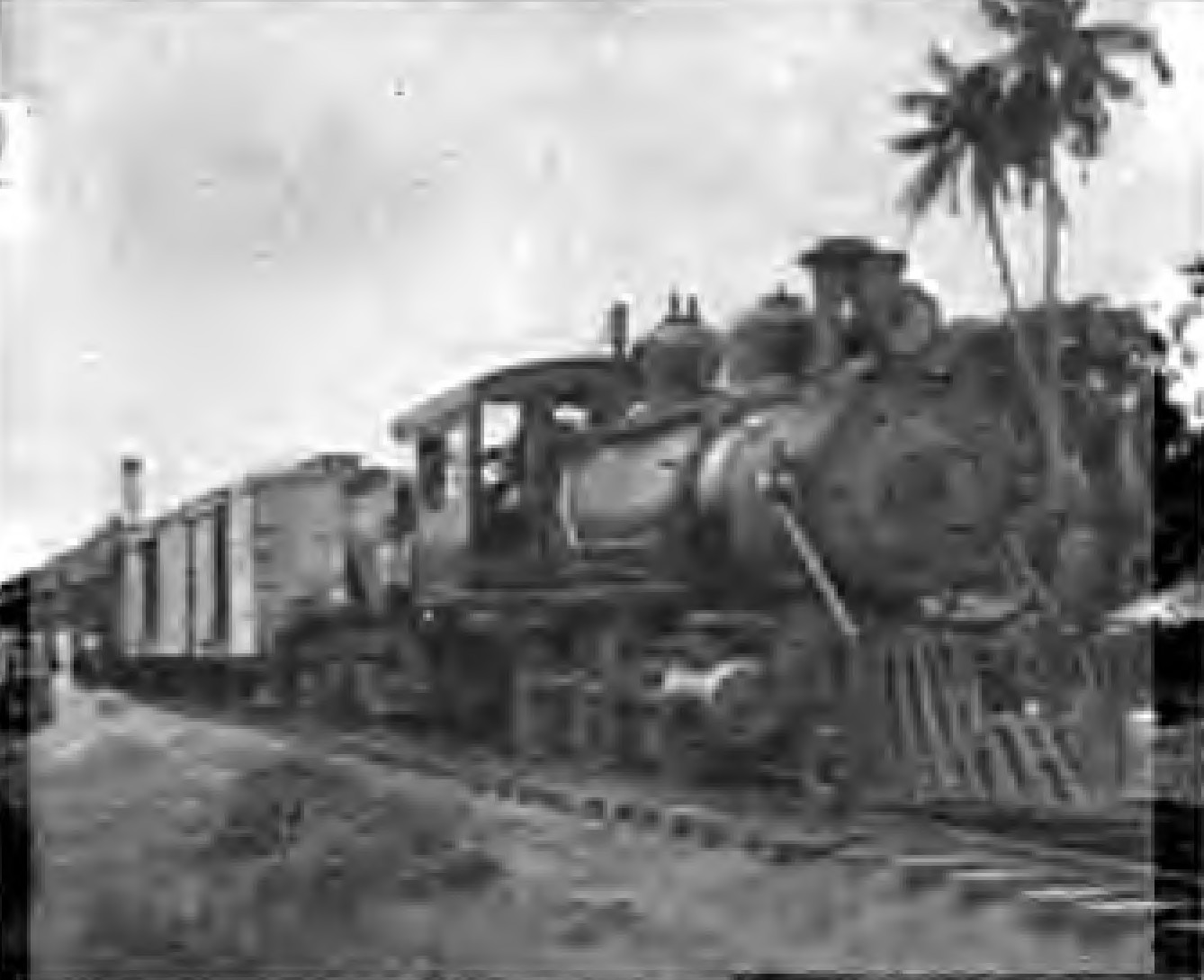 A passenger train in Panay (c.1917)